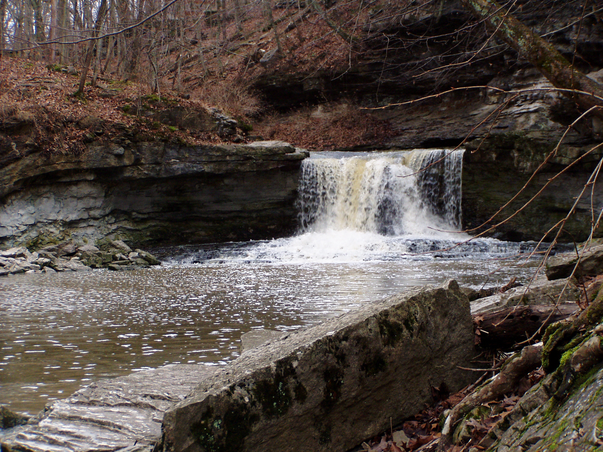 McCormick's Creek Falls in McCormick's Creek State Park, Indiana